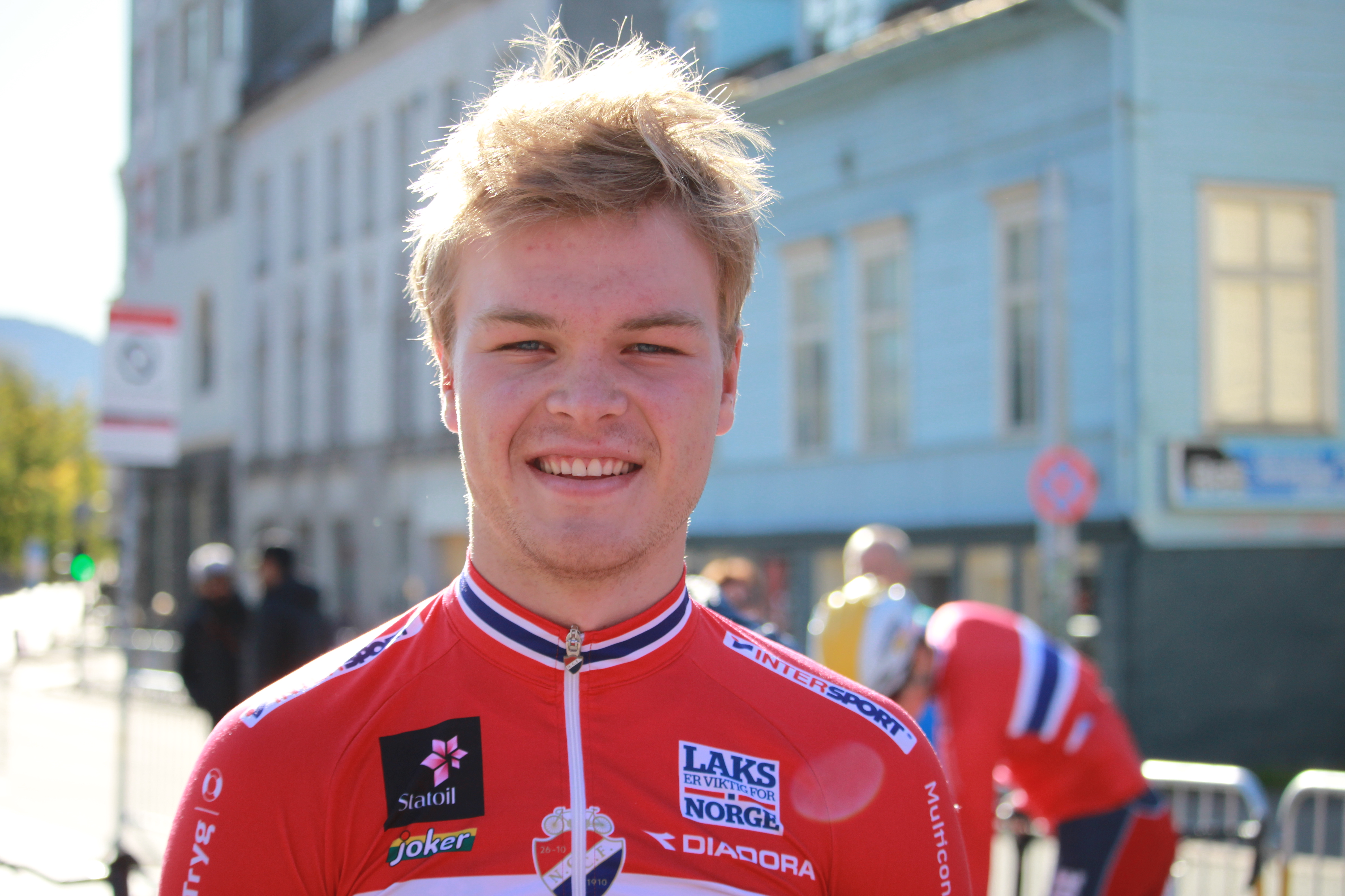 Norwegian cyclist Tobias Foss at the 2017 UCI Road World Championships in Bergen.